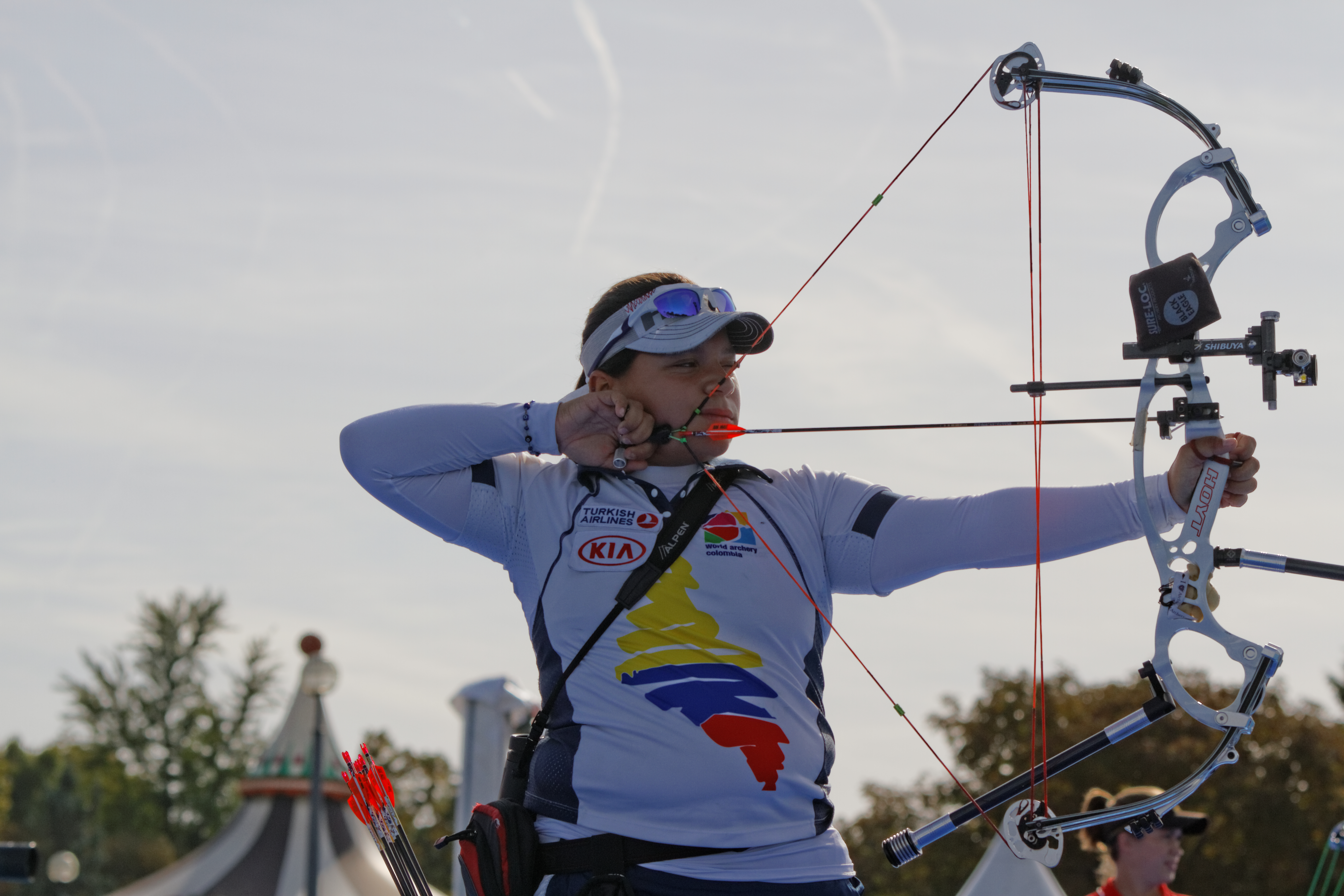 2013 FITA Archery World Cup, Paris, France. Women's individual compound final: Alejandra Usquiano vs Erika Jones.